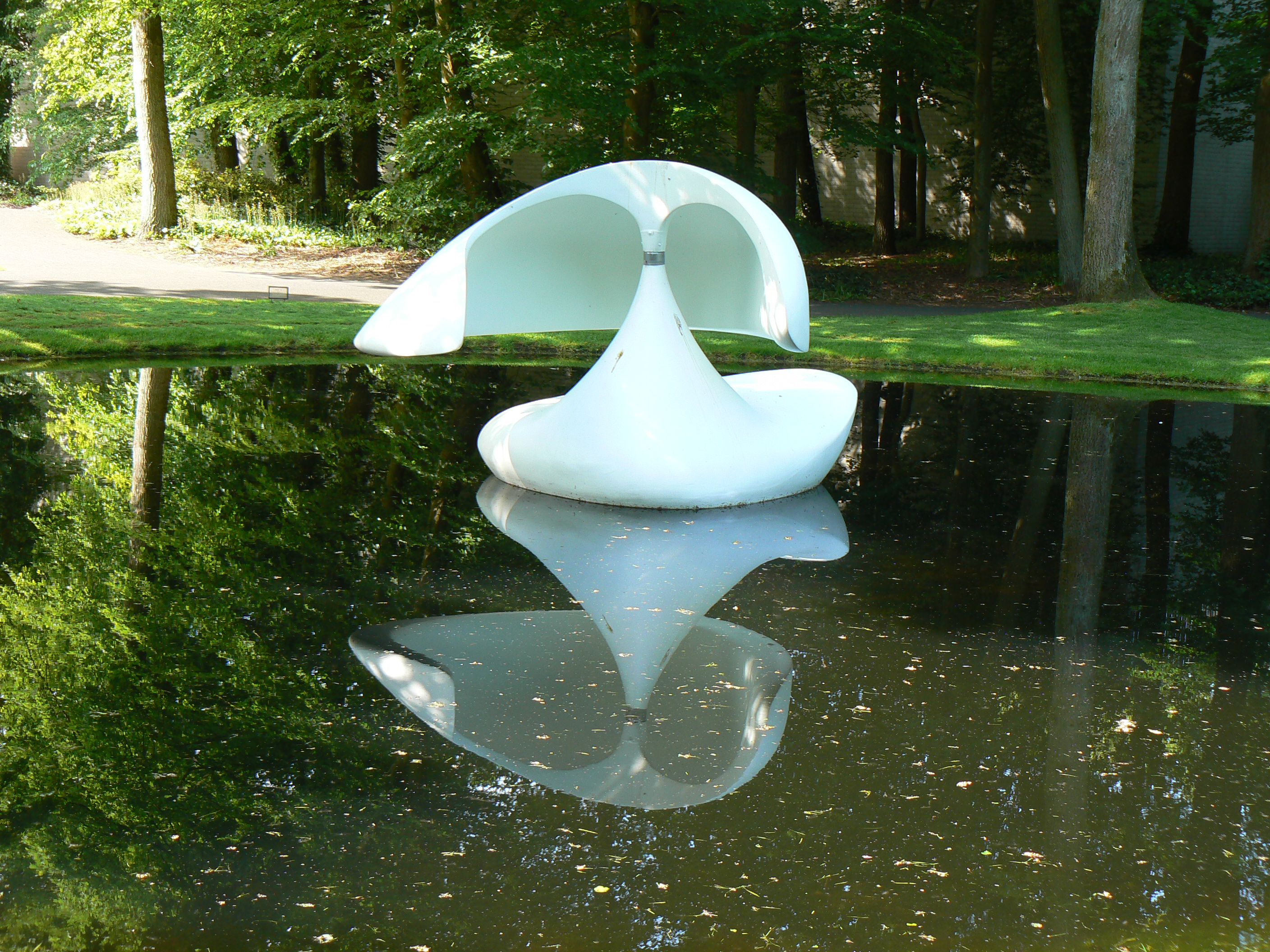 sculpture Sculpture flottante (1960/1) by Marta Pan in sculpturepark KMM/The Netherlands